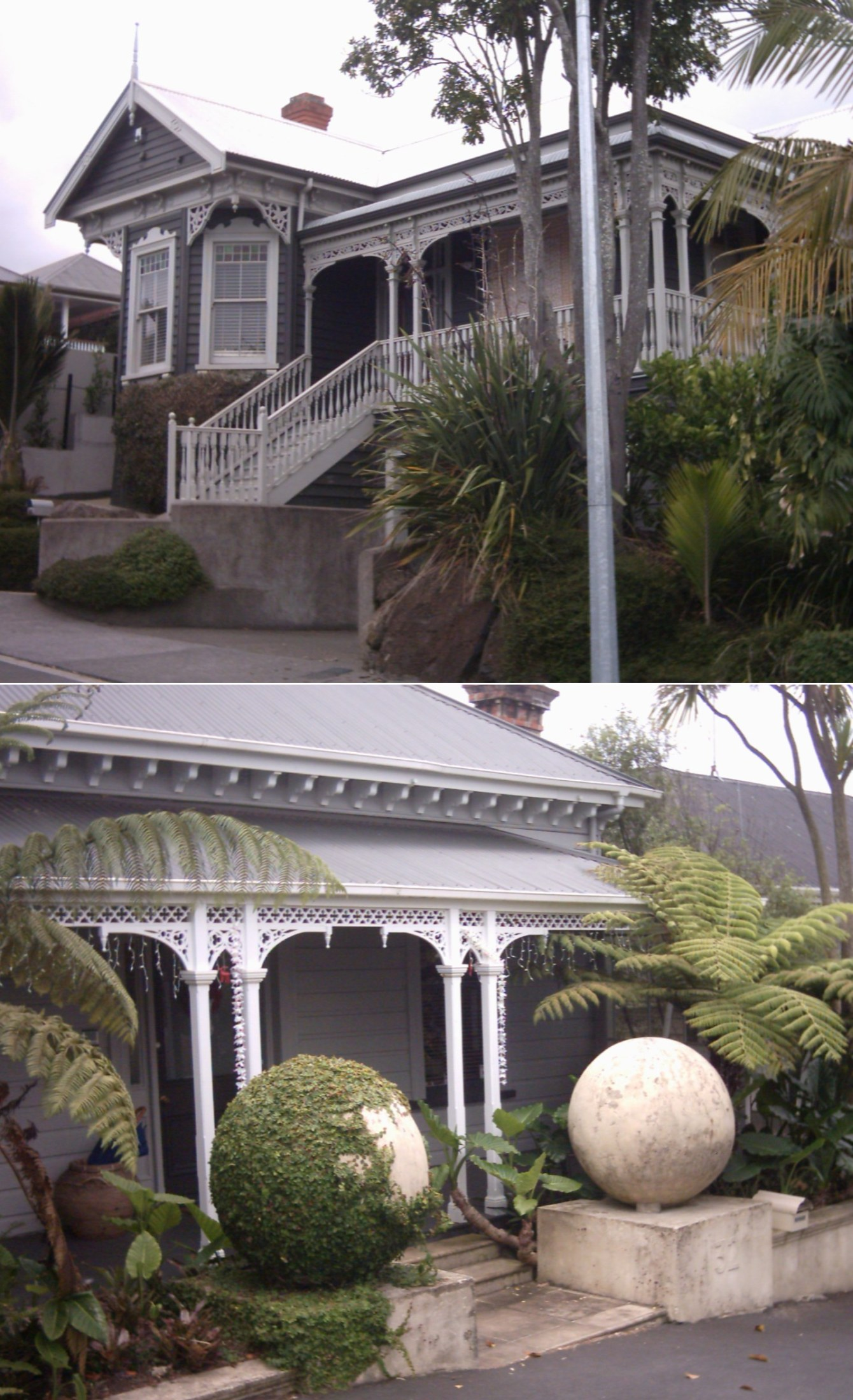 Heritage houses in Freemans Bay, a suburb of Auckland City, New Zealand.